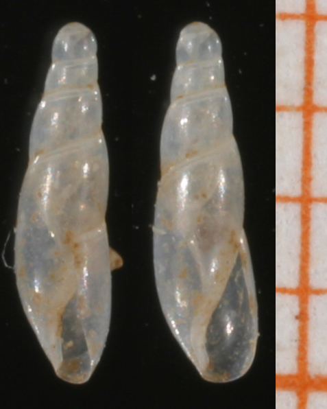 Photo of shells of Cecilioides acicula. Scale in mm. Locality: Germany: Niedersachsen, near Höxter. Date: 30-October-1983.